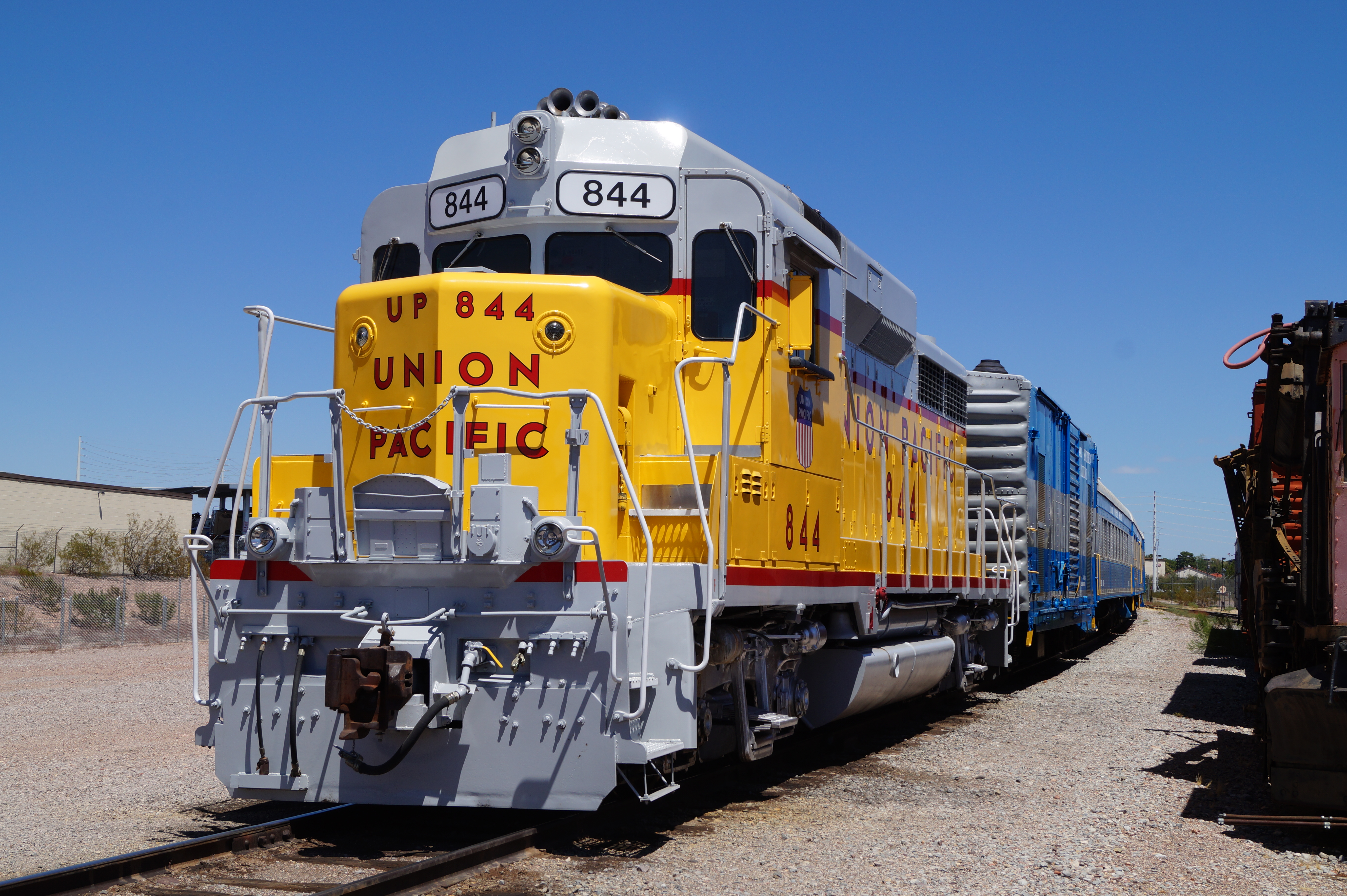 Preserved former Union Pacific EMD GP30, No 844: Now Mount Hood Geep 9 M #90 in 1990, & Southern Pacific Railroad GS-4 #4458 in 1991, which at one time necessitated the renumbering of steamer Union Pacific 844 to Union Pacific 8444 from 1962-1989: Mount Hood GEEP 9 Mac #90: 6/4/1990 Since Southern Pacific Railroad GS 4 #4458 in 1991[1] at the Nevada State Railroad Museum which is an agency of the Nevada Department of Cultural Affairs. It is located at Yucca Street on the tracks of the historic Union Pacific Railroad branch Henderson-Boulder City near the former Boulder City Railroad Yards where the Hoover Dam construction equipment was unloaded in the 1930s. References ↑ Steam Locomotive No. 844. Retrieved on 2009-03-02.